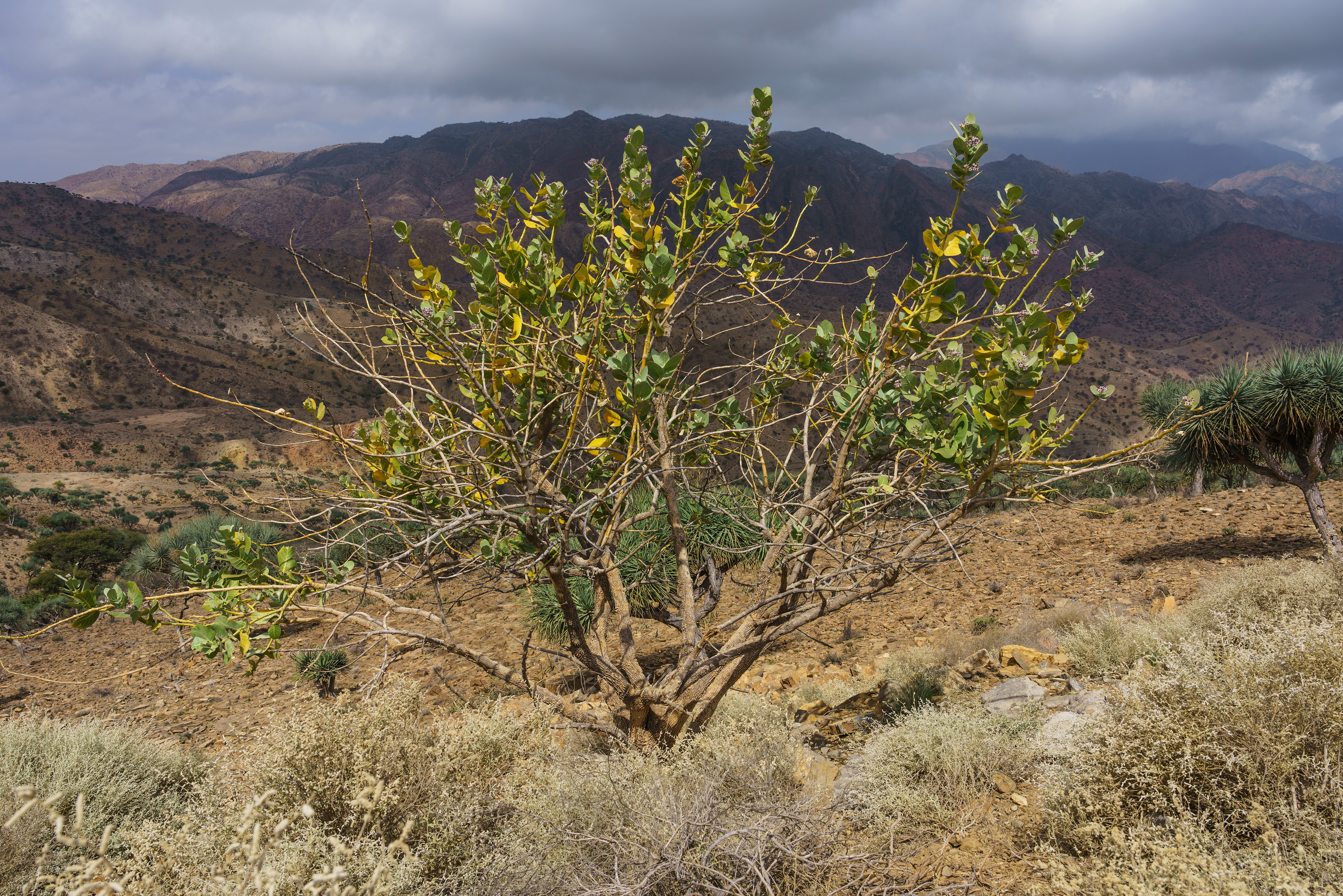 Surroundings of Abala town, Afar Region, Ethiopia